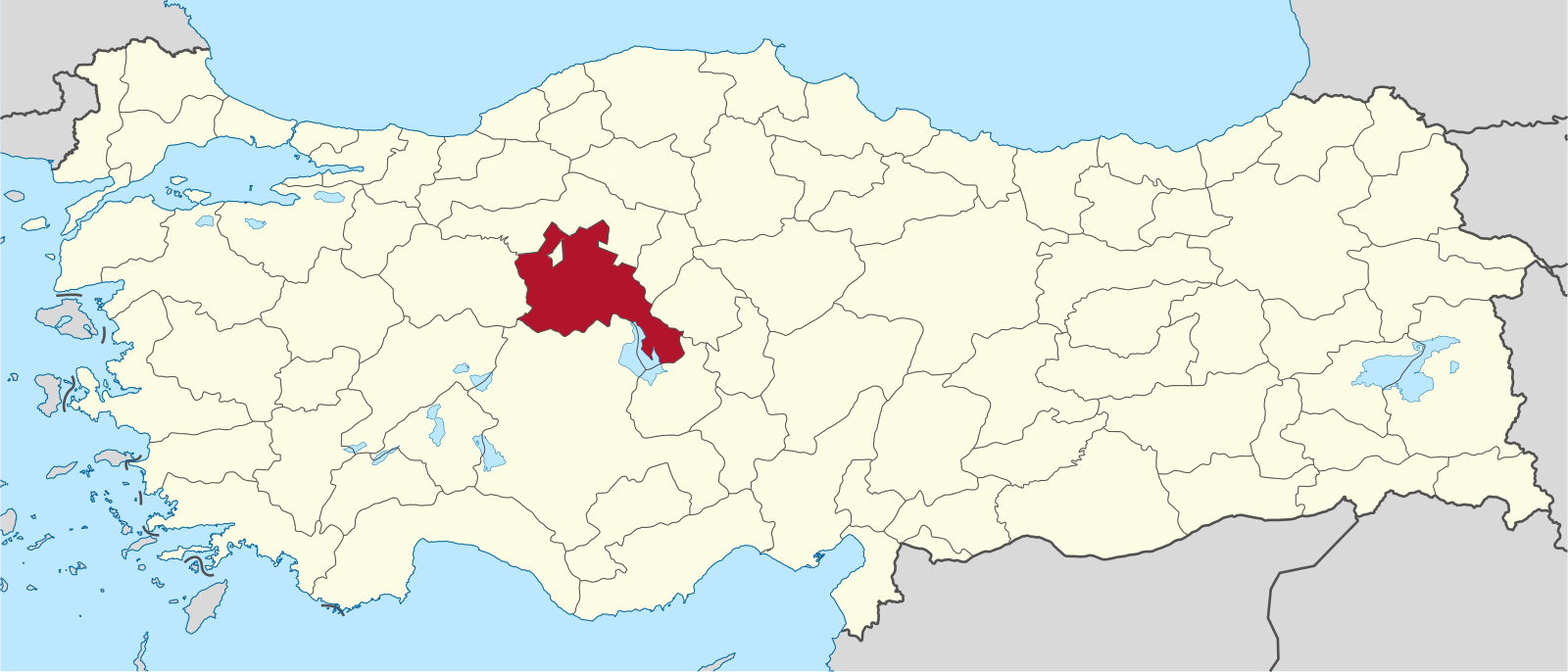 Ankara's second electoral district in Turkey